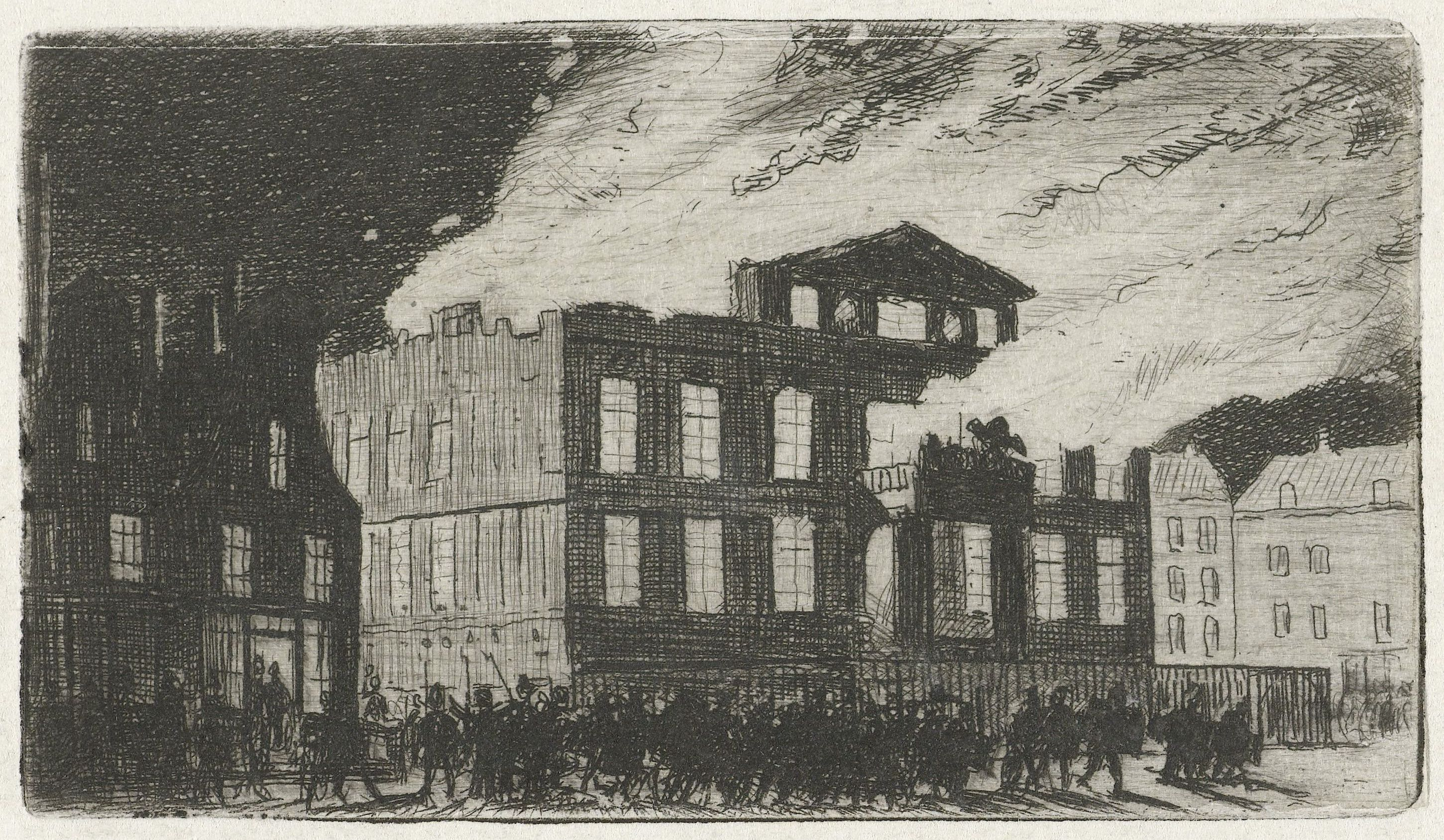 Brand in Museum Boijmans, 1864 door Cornelis van der Grient en Jan Weissenbruch